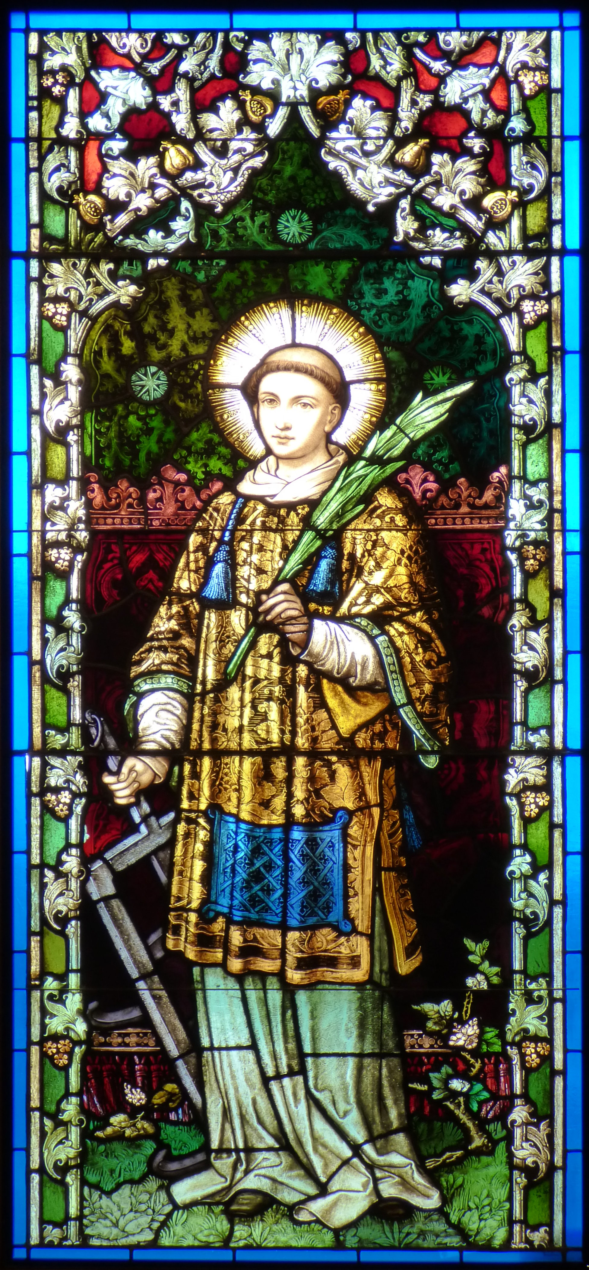 St. Lawrence on stained glass window in St. Stephen the Martyr Daily Mass Chapel in Omaha.